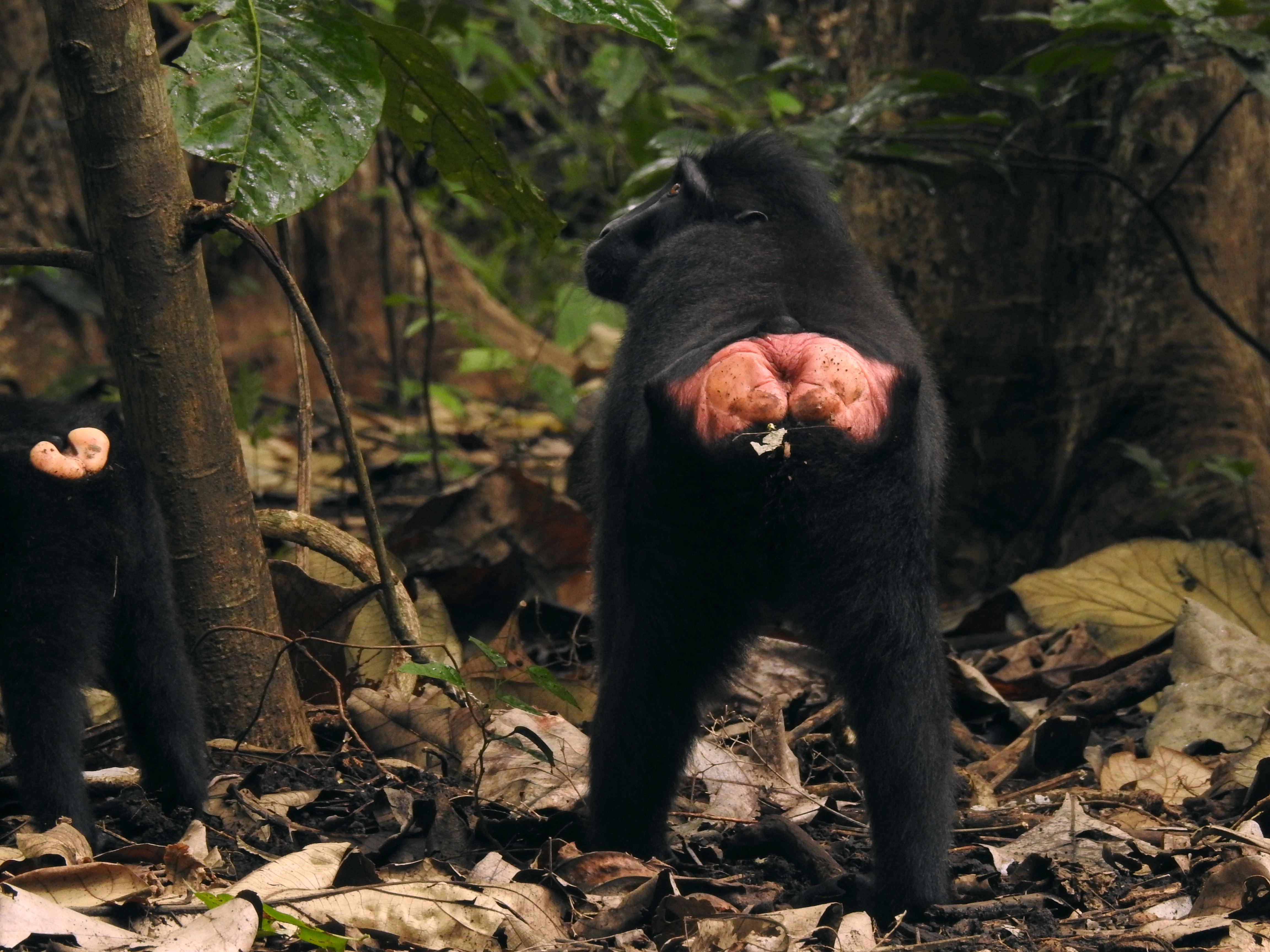 Male Celebes or Sulawesi crested macaque (Macaca nigra) in Tangkoko Nature Reserve, Sulawesi, showing Bright pinkish red leathery ischial callosities or rump pads